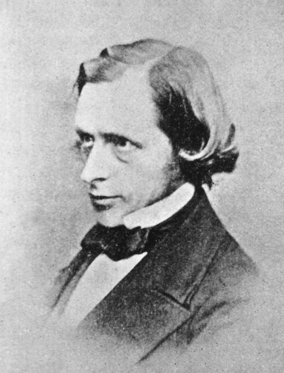 William Senhouse Kirkes (1822-1864), English physiologist, photograph